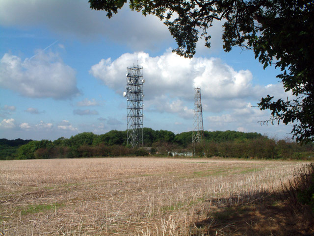 Masts near southern end of Beddlestead Lane, CR6.